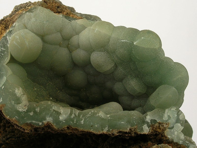 Gibbsite Locality: Xianghualing Mine (Hsianghualing Mine), Xianghualing Sn-polymetallic ore field, Linwu County, Chenzhou Prefecture, Hunan Province, China (Locality at ) Size: small cabinet, 6.8 x 6.2 x 5.3 cm Gibbsite Several vugs in this specimen are hosts to lustrous and translucent botryoidal aggregates of green gibbsite to 1.5 cm across. The shape and look of the botryoidal aggregates are reminiscent of Arkansas wavellite. This is a very rich, fine specimen with unusually large botryoidal crystallization - rarely seen in the find.